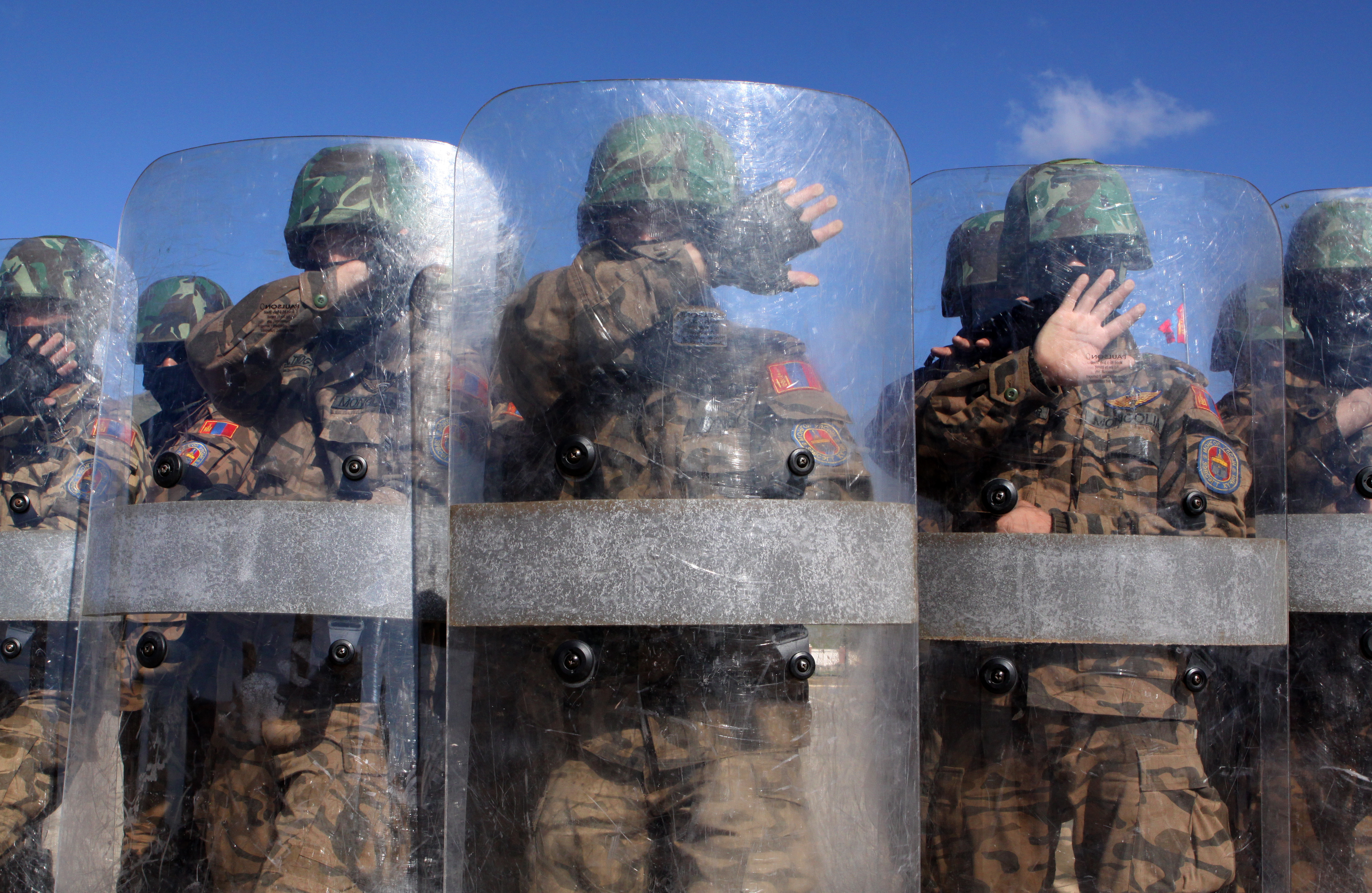 Members of the Mongolian Armed Forces and Internal Forces practice crowd control techniques as a part of Non-Lethal Weapons Executive Seminar 2010 (NOLES 10) at 5 Hills Training Facility, Mongolia, June 30, 2010. NOLES is an annual seminar held in a different country every year with the purpose of promoting the exchange of tactics and knowledge between nations.